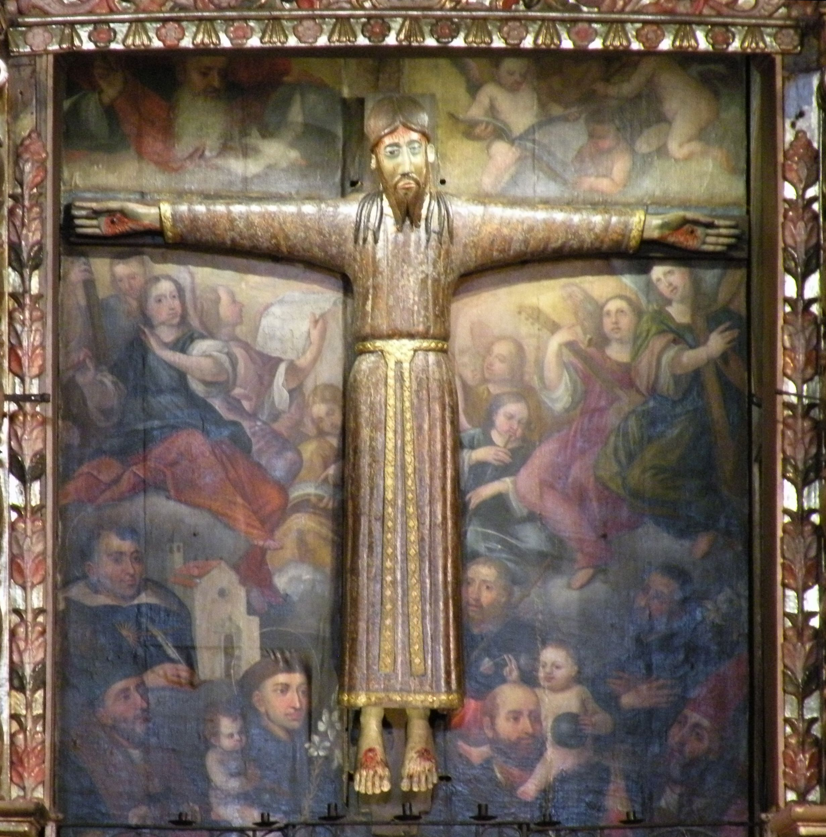 Crucifixion of Christ King, Church of Sant Cristòfor of Beget. Catalonia